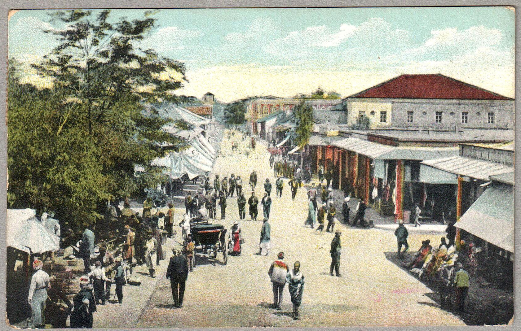 Batum 1913 Turkish bazar